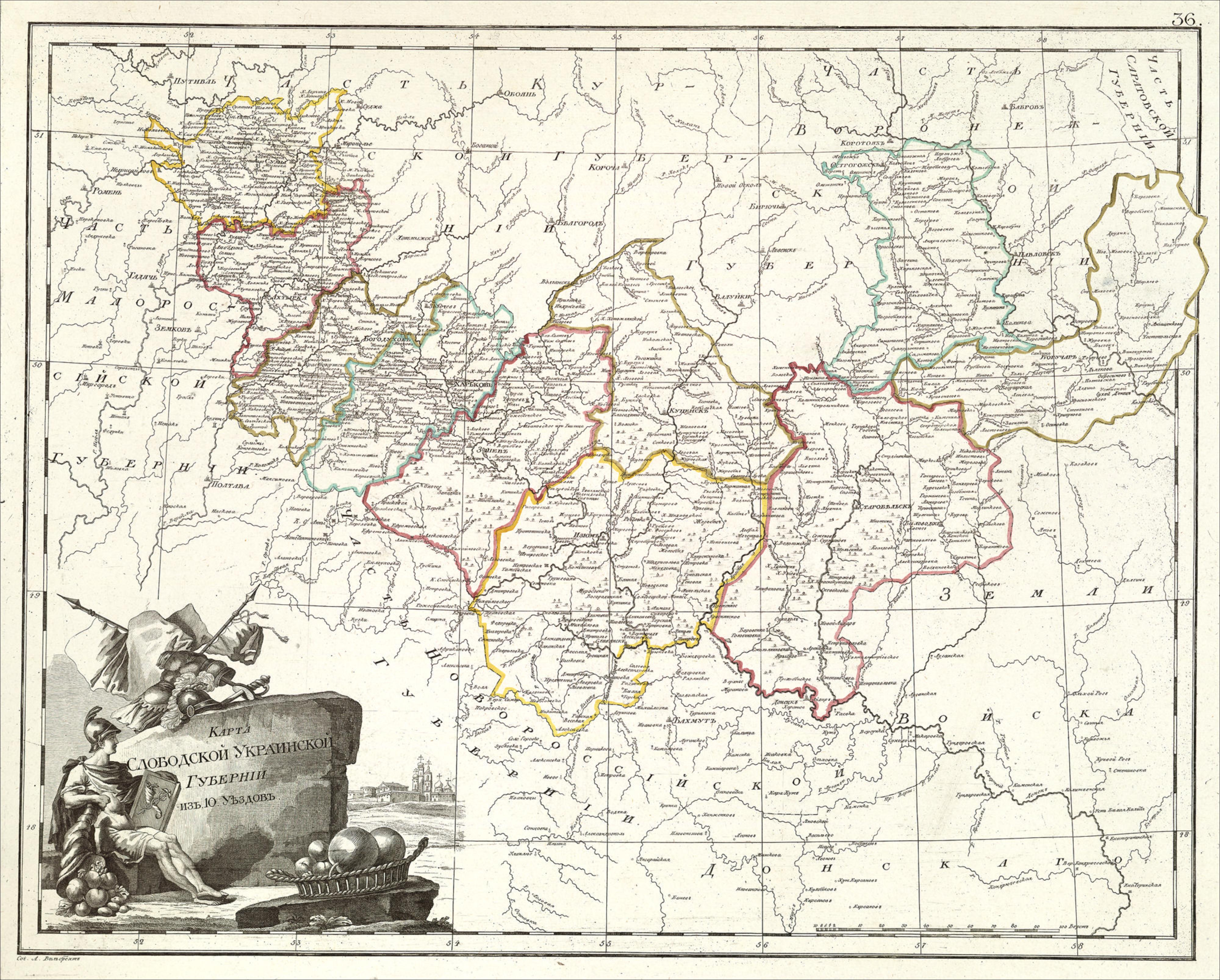 Atlas of Russian Empire. 1800 year. List 36. Slobodskaya Ukrainskaya Province from 10 uyezds